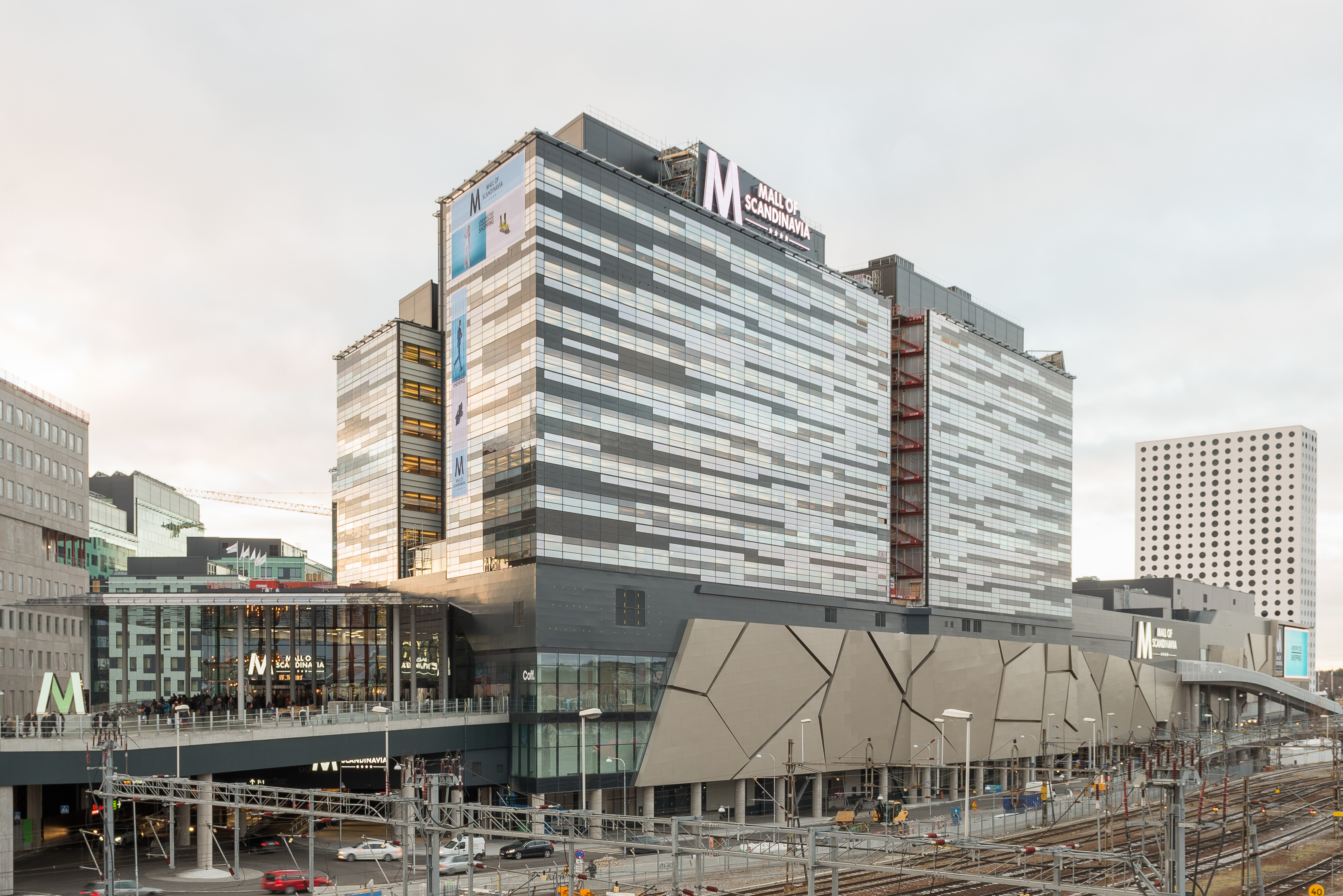 The "Mall of Scandinavia" shopping mall in November 2015. Arenastaden, Solna (Stockholm).